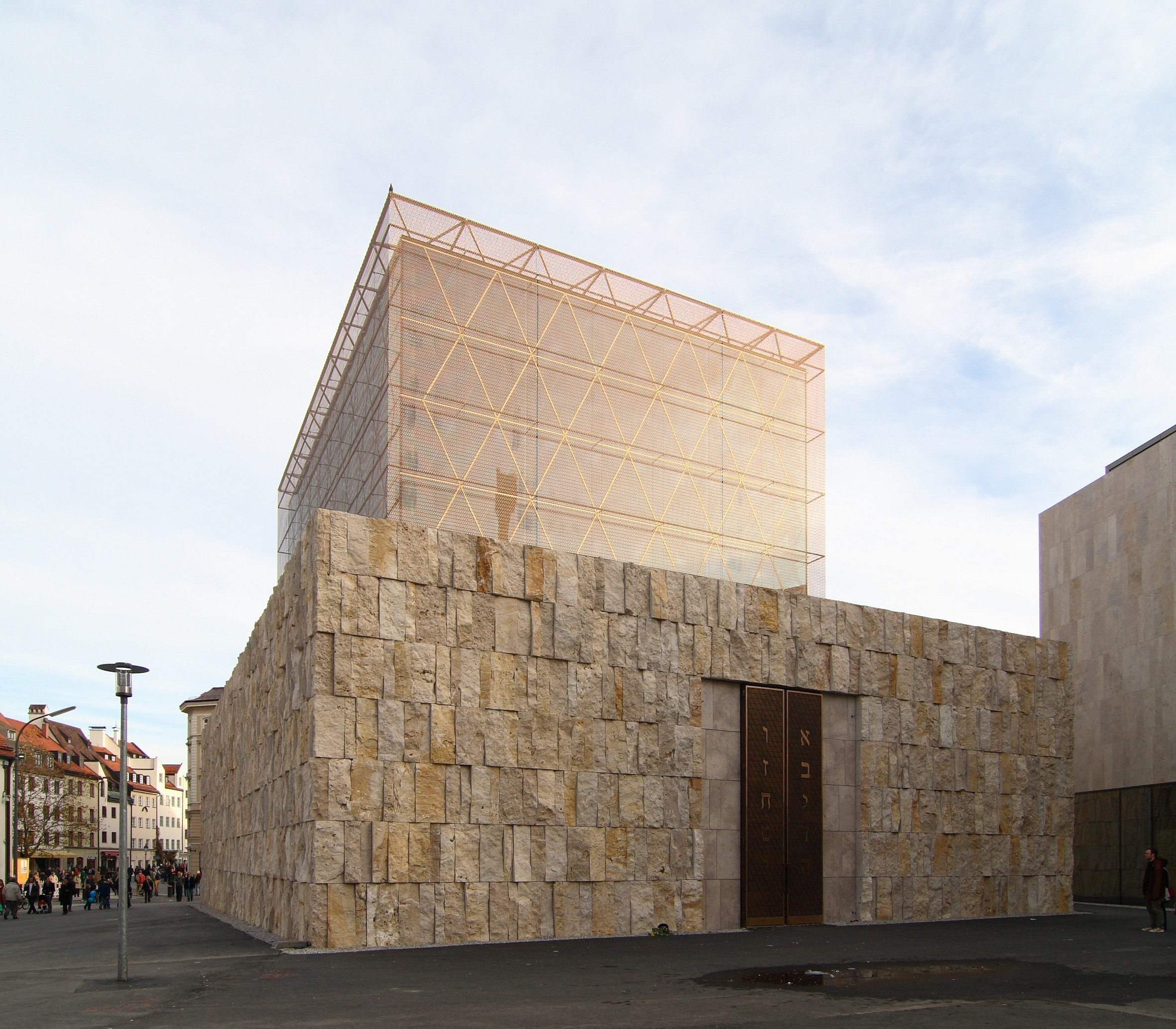 Synagoge in München (cropped and shifted by smial)